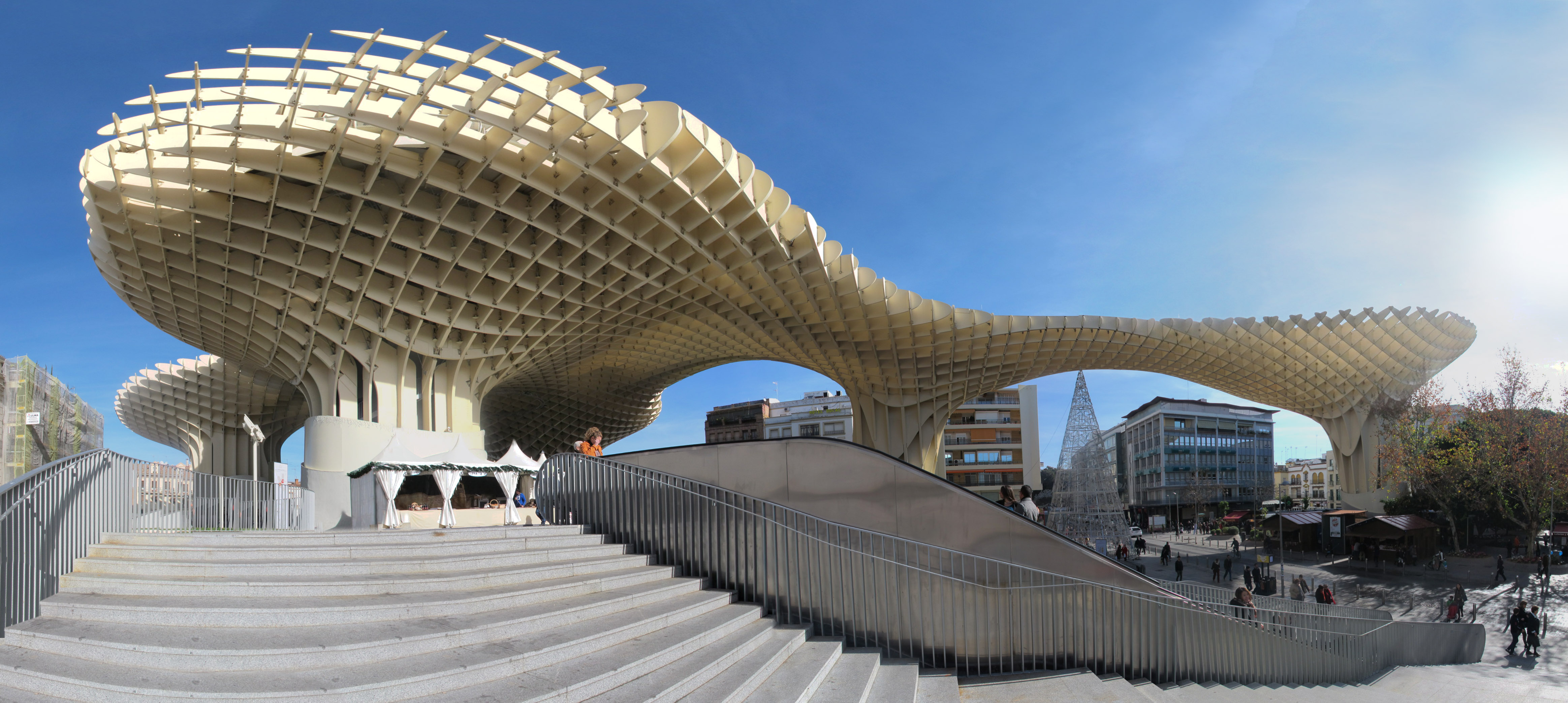 Metropol Parasol is a wooden building in the old quarter of Seville, Spain. It was designed by the German architect Jürgen Mayer-Hermann, and its construction finished in 2011